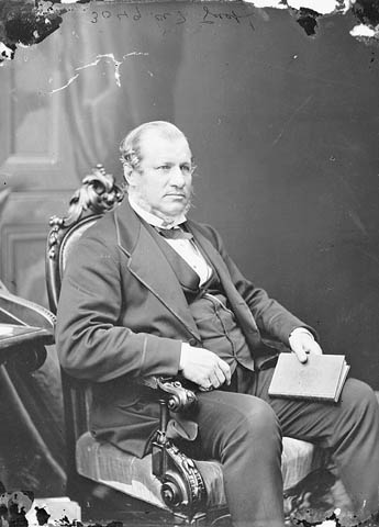 A picture of Sir Alexander Tilloch Galt. A member of the Legislative Assembly of the Province of Canada and the House of Commons of Canada (representing Sherbrooke, Quebec in both houses), Galt served as Canada's first federal Finance Minister and as the country's first High Commissioner to the United Kingdom. He also founded Lethbridge, Alberta.